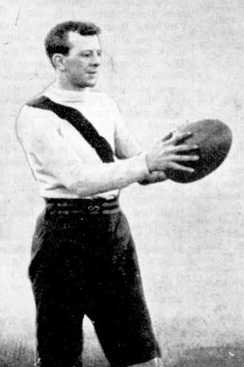 Photograph of Bert Streckfuss from the 1910 Weekly Times Victorian Footballer Postcard Series